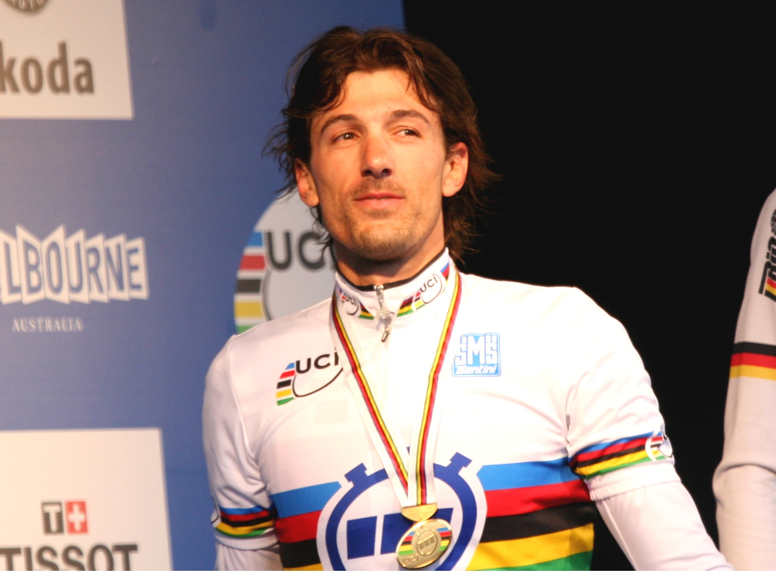 World time trial champion Fabian Cancellara wearing the rainbow jersey. UCI World Champions 2010, Geelong, Australia